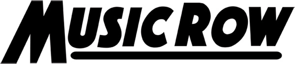 MusicRow logo.